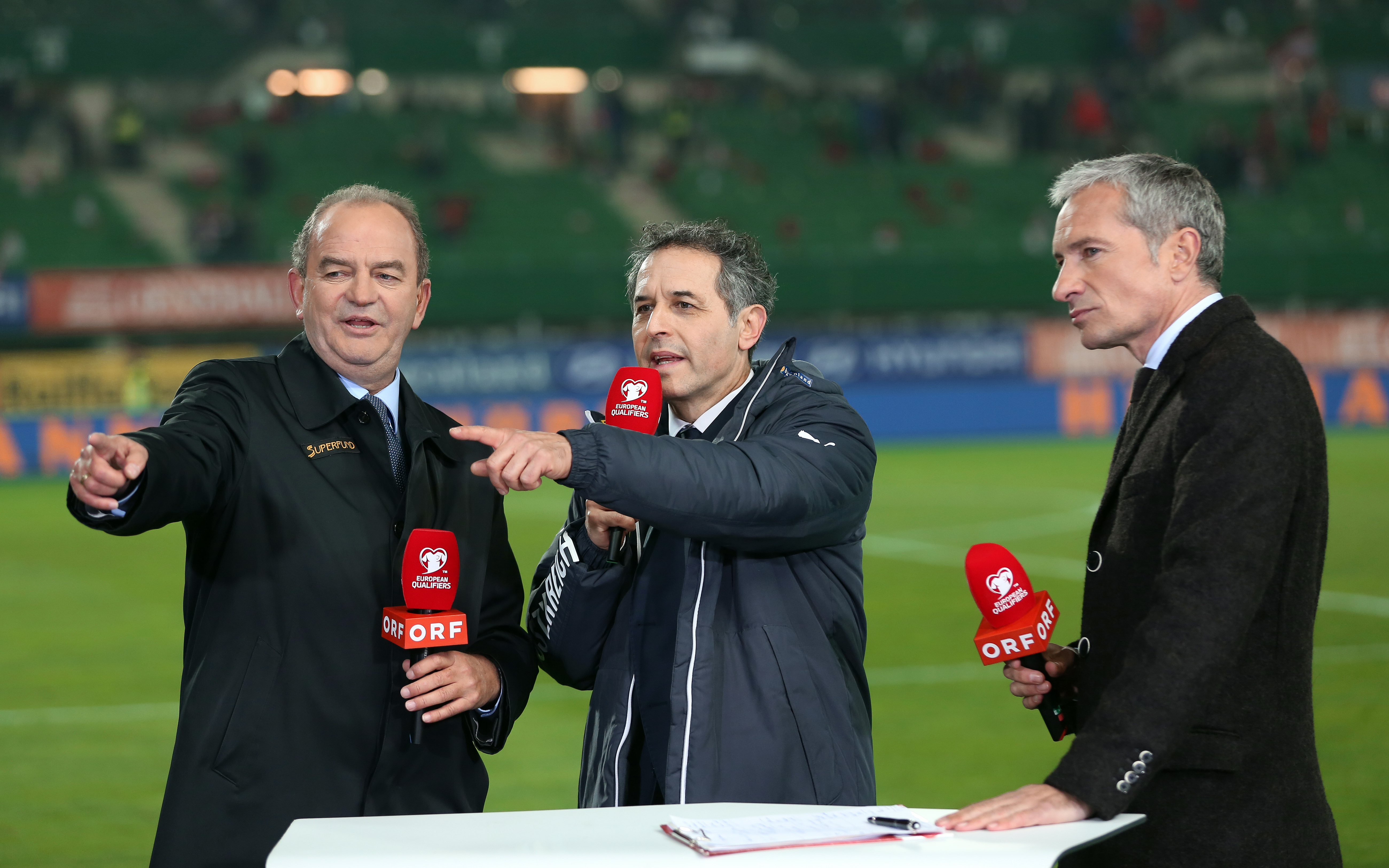 Marcel Koller (center), Herbert Prohaska (l.) and Rainer Pariasek after the qualification match for UEFA Euro 2016 between the Austrian national football team and the Russian national football team; Ernst-Happel-Stadion in Vienna, Austria.